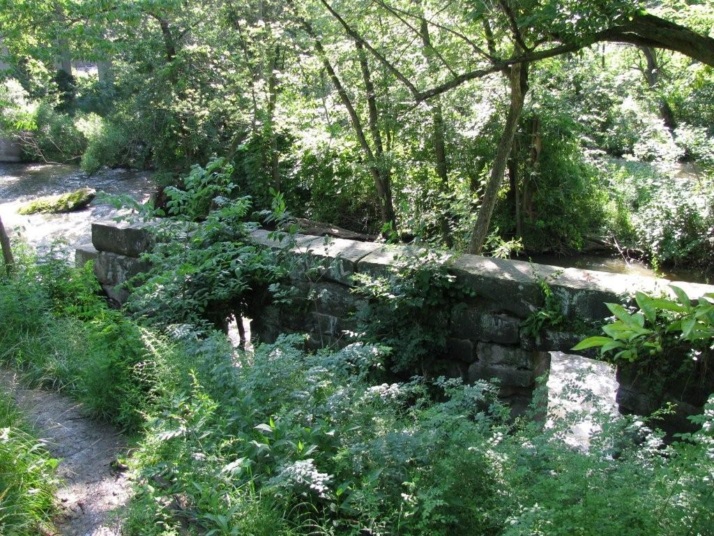 Ruins of the old Kent Mill on the banks of the Cuyahoga River in Kent, Ohio. The mill was built in the late 1830s on the site of the original Haymaker mill, built by the first settlers of Kent in 1807. The Kent Mill was used mainly for the production of flour. It was torn down in the 1930s, though these foundation walls still remain in Kent's Franklin Mills Riveredge Park immediately south of the Haymaker Parkway Greer Bridge. The area is adjacent to the Kent Industrial District, a listing on the National Register of Historic Places. Picture taken by my grandfather Barton Derby.